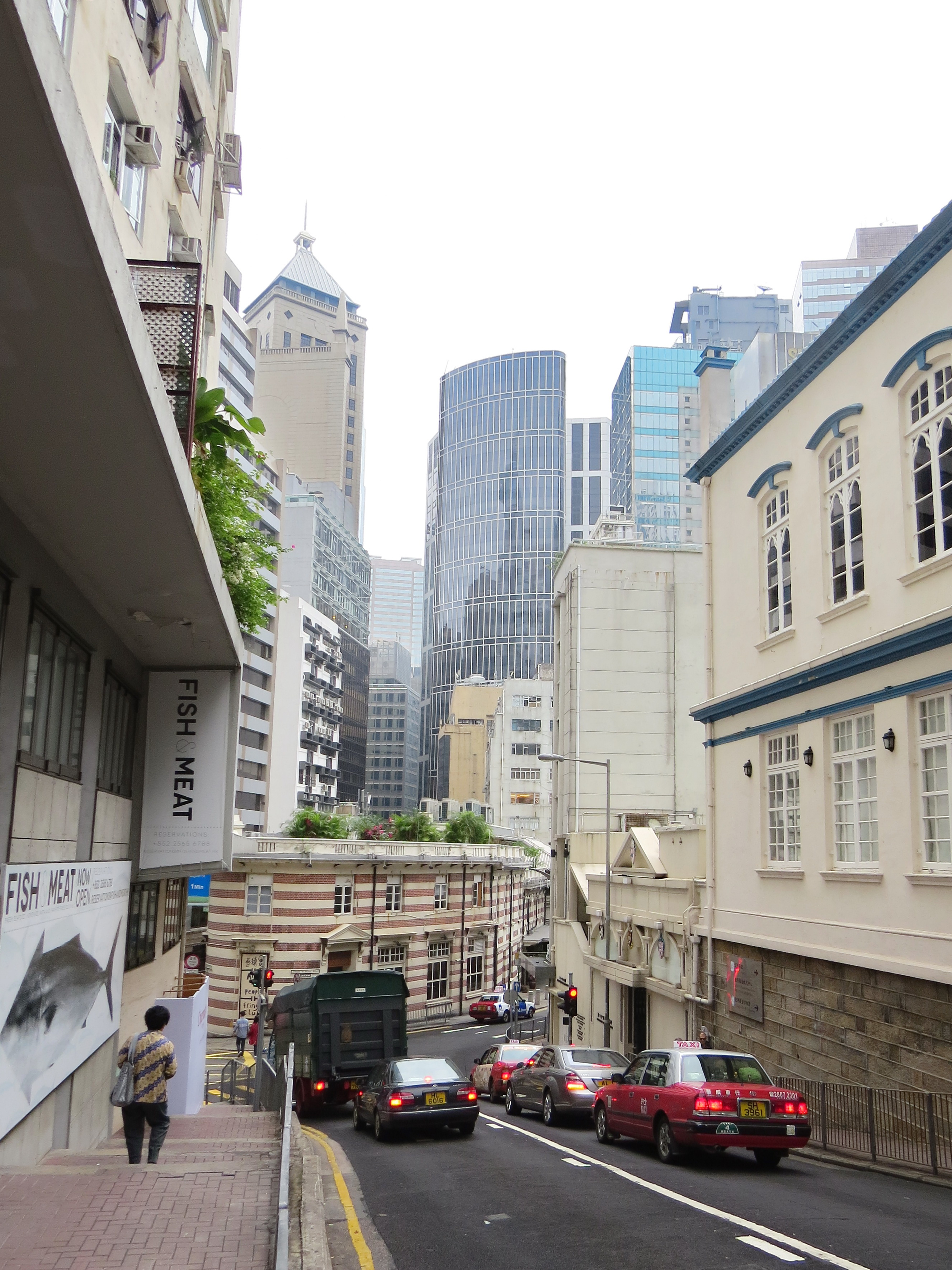 Glenealy, Central, Hong Kong.